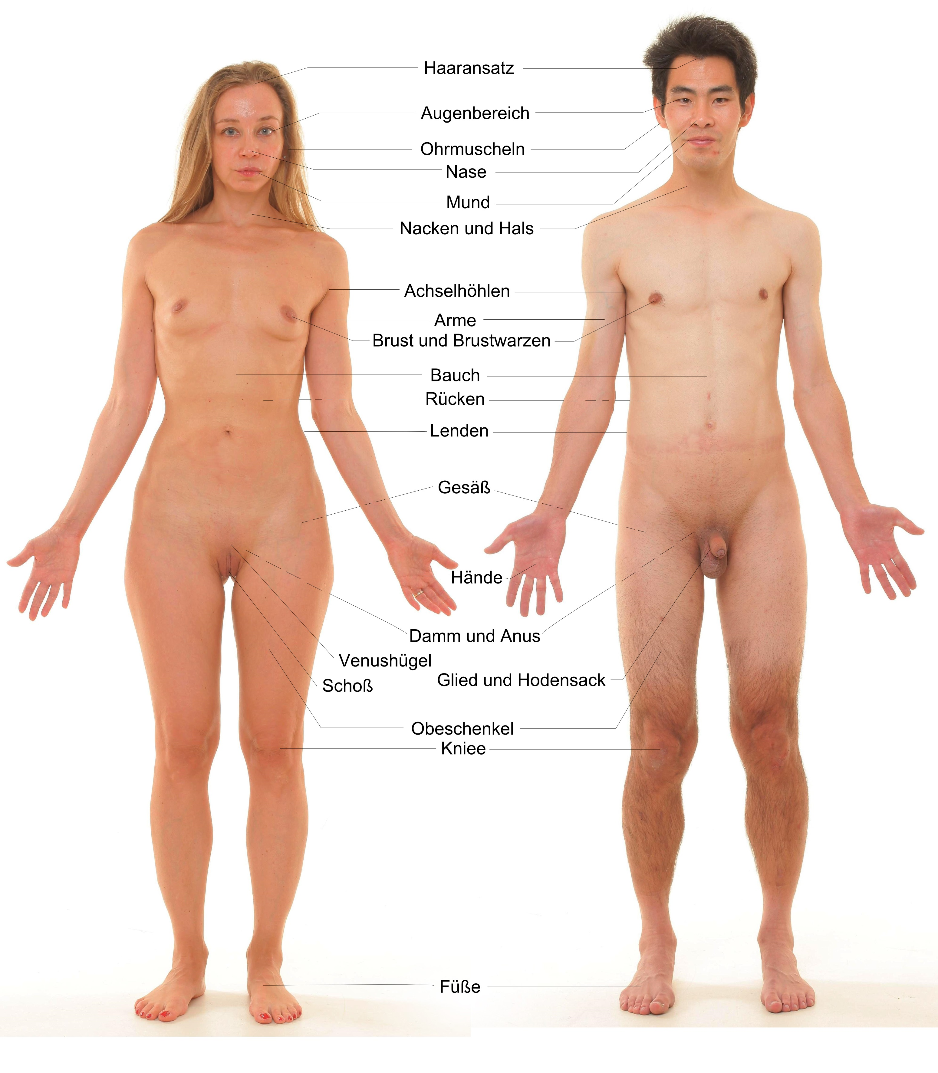 Human erogenous zones labeled in German